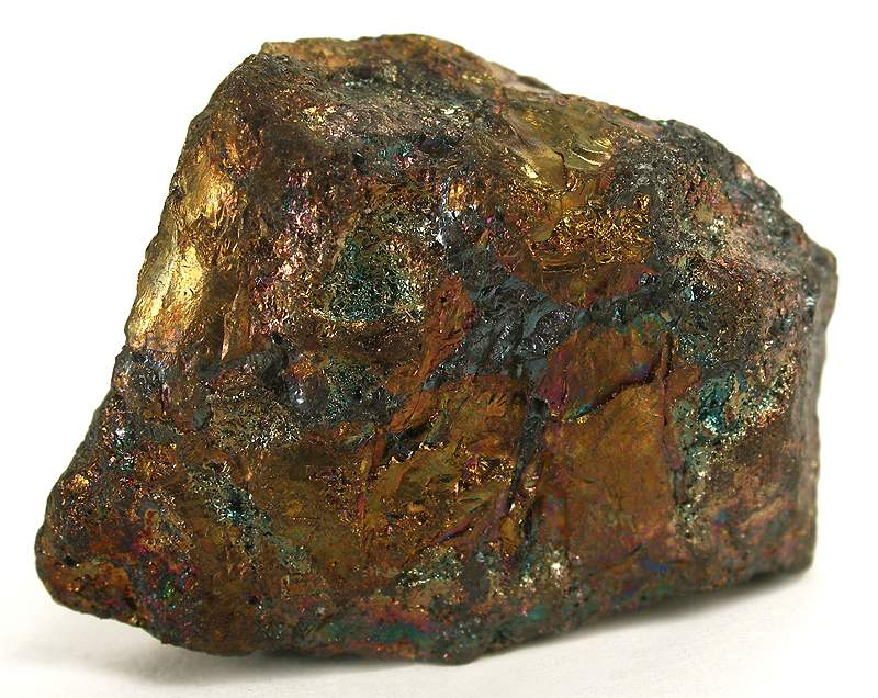 Renierite Locality: Tsumeb, Otjikoto (Oshikoto) Region, Namibia (Locality at ) Size: miniature, 3.4 x 2.4 x 1.7 cm Renierite A solid reference specimen of ore noted as "very rich" on the original label from David New, who is generally reliable on such things (although I haven't had it X-rayed myself to confirm). The look and heft of the piece feel right, though, for the material, and I feel that David's rarities are trustworthy. Ex. John White Collection.